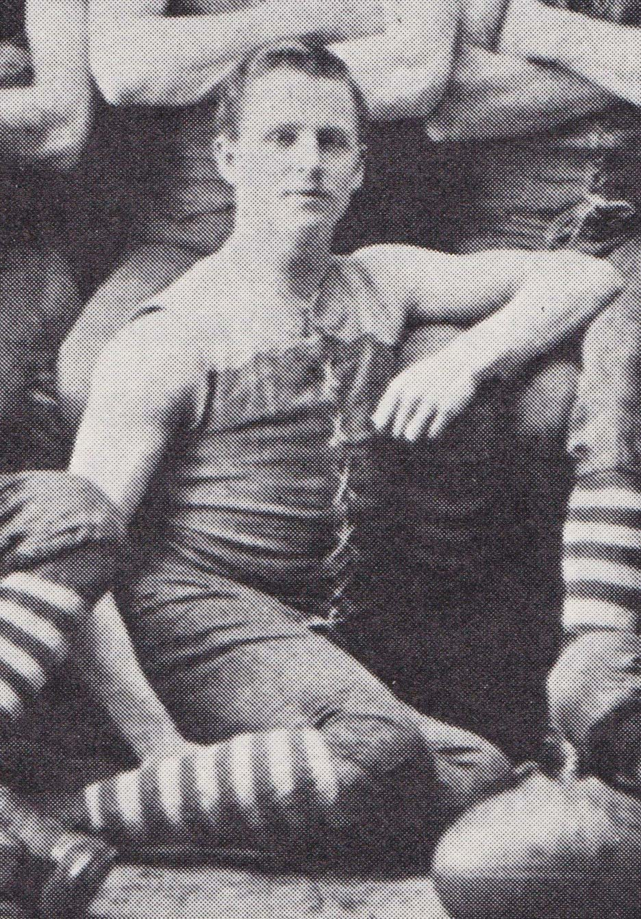 Photo of Jack Roberts dated between 1897 and 1899